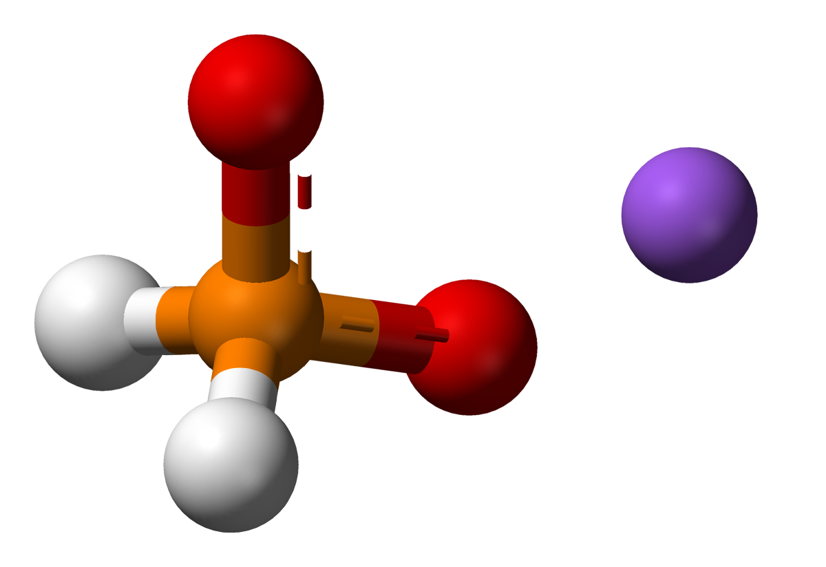 Ball-and-stick model of the sodium hypophosphite molecule (also known as sodium phosphinate), the sodium salt of hypophosphorous acid, a reducing agent, used in electroless nickel plating.